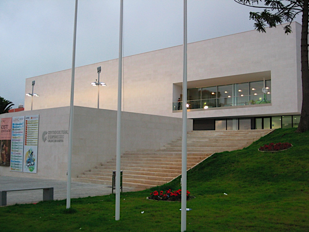 Centro Cultural e de Congressos in Caldas da Rainha, Portugal